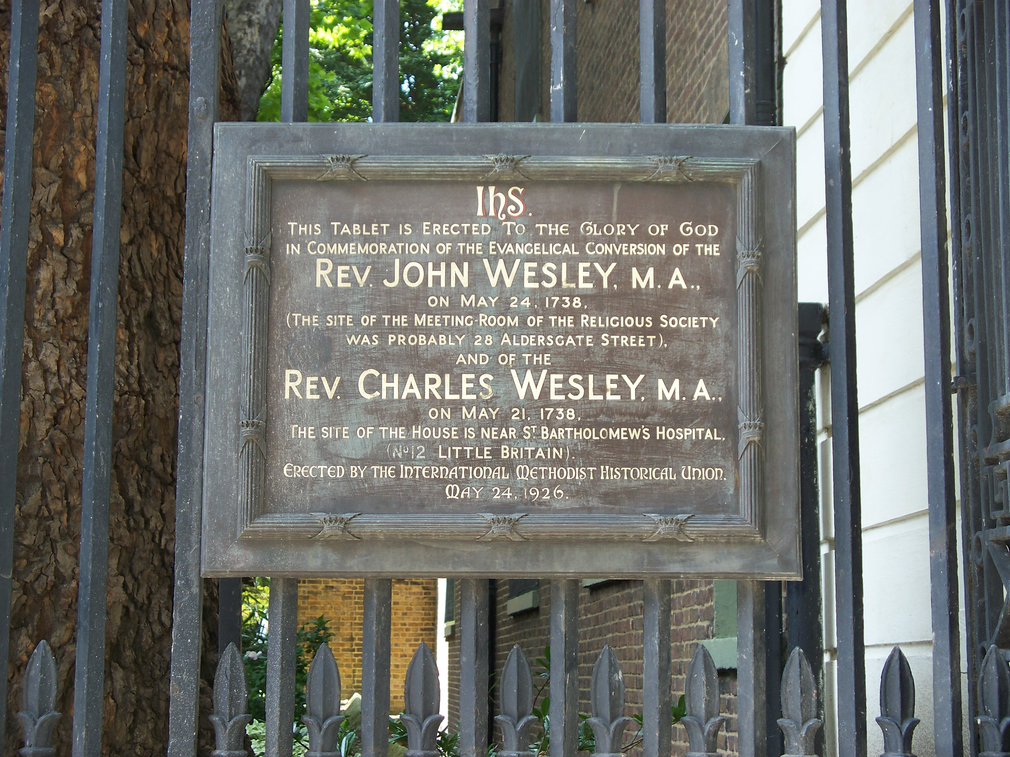 John Wesley memorial, Postman's Park, London. Photograph taken in a public location in the UK of a building on permanent public display, and exempt from copyright under Section 62 of the Copyright Designs & Patents Act 1988 ("it is not an infringement of copyright to film, photograph, broadcast or make a graphic image of a building, sculpture, models for buildings or work of artistic craftsmanship if that work is permanently situated in a public place or in premises open to the public")